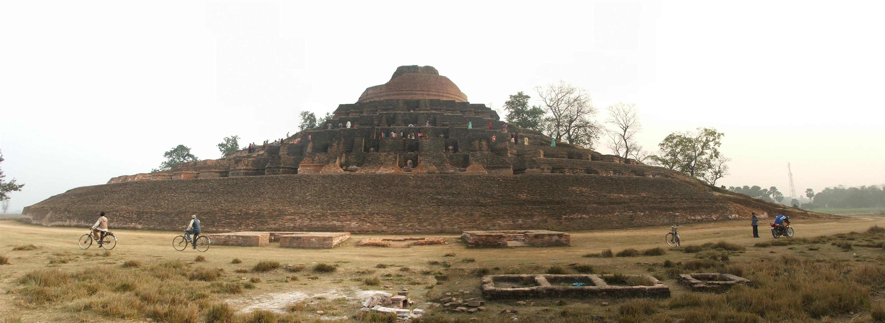 Buddhist Stupa in Kesariya, Bihar, India. Commemorating the Kalama Sutta and the giving of Buddha's bowl to the Licchavis.